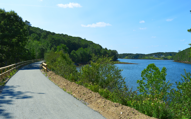 The "Passy Rail Trail" at MP 1.3 of the old Belfast and Moosehead Lake Railroad grade between the Upper Bridge and the Beavertail, Belfast, ME